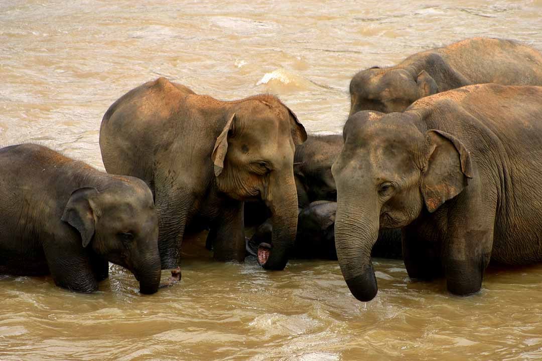 Elephants in Sri Lanka, so presumably Sri Lankan Elephants.